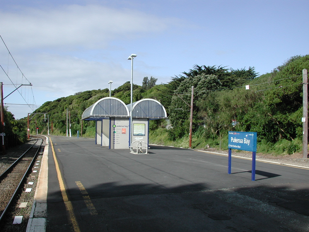 Pukerua Bay Station train stop (main trunk line, Wellington region rail network) in Pukerua Bay, (New Zealand) looking north. Photo taken just before the start of construction work in 2009 to get the platform ready for the arrival of the new Matangi commuter train units.